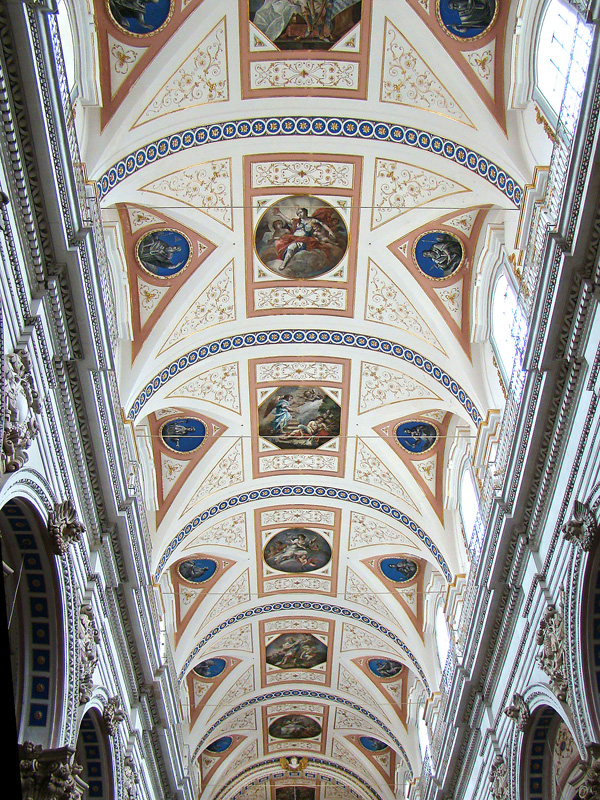 Cathedral of San Giorgio, Modica, Sicily, Italy. Vault over the nave.